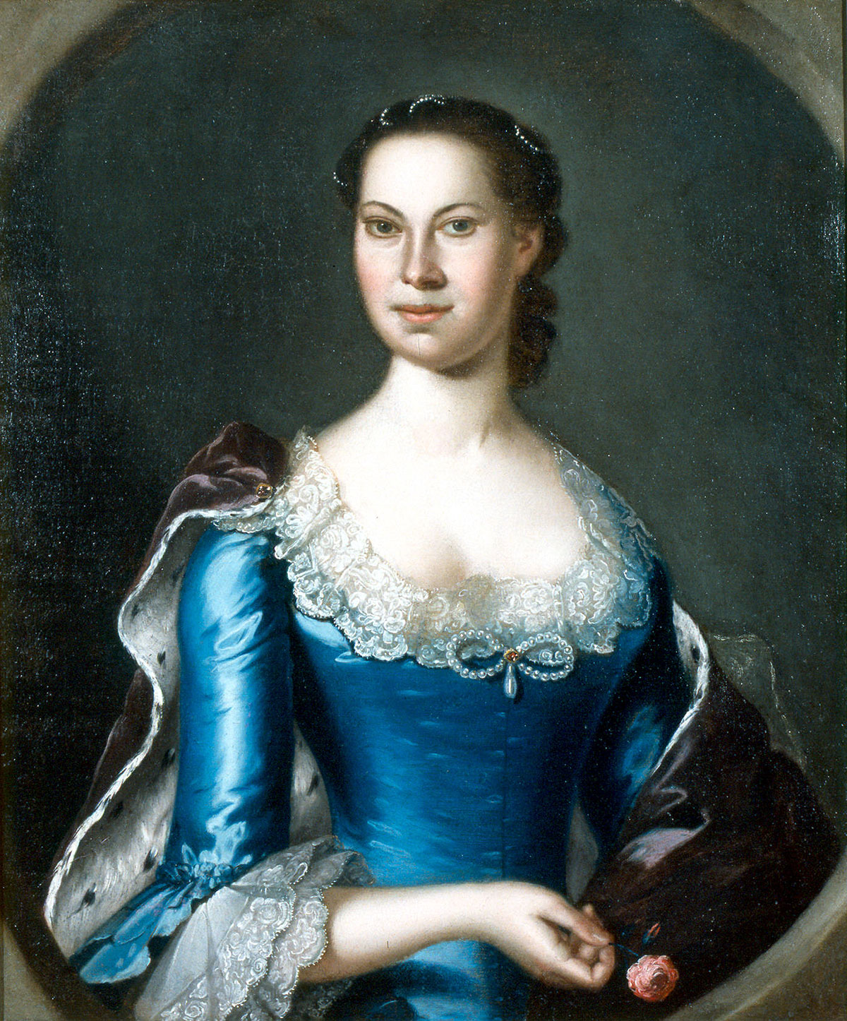 c 1767 By John Hesselius The wife of Captain Charles Ridgely (1733-1790), builder of Hampton, Rebecca Dorsey Ridgely (1739-1812) was the daughter of Caleb Dorsey of “Belmont,” an Anne Arundel County iron master. The two were married in 1760, the year Capt. Ridgely with his father and brother John established the Northampton Iron Works. This portrait and the one of Capt. Ridgely were painted by the noted American artist John Hesselius, who by 1763 was living in Annapolis and painting many portraits of Maryland’s landed gentry. Although fashionably dressed in luxurious clothing for this portrait, Rebecca later became an ardent convert to Methodism, and was a friend and supporter of the earliest Methodist preacher in America, Robert Strawbridge. Oil on canvas. H 75, W 63.5 cm Hampton National Historic Site, HAMP 1145